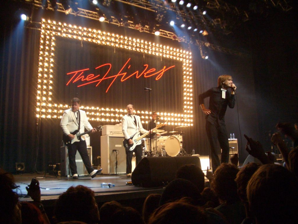 The Hives performing live.